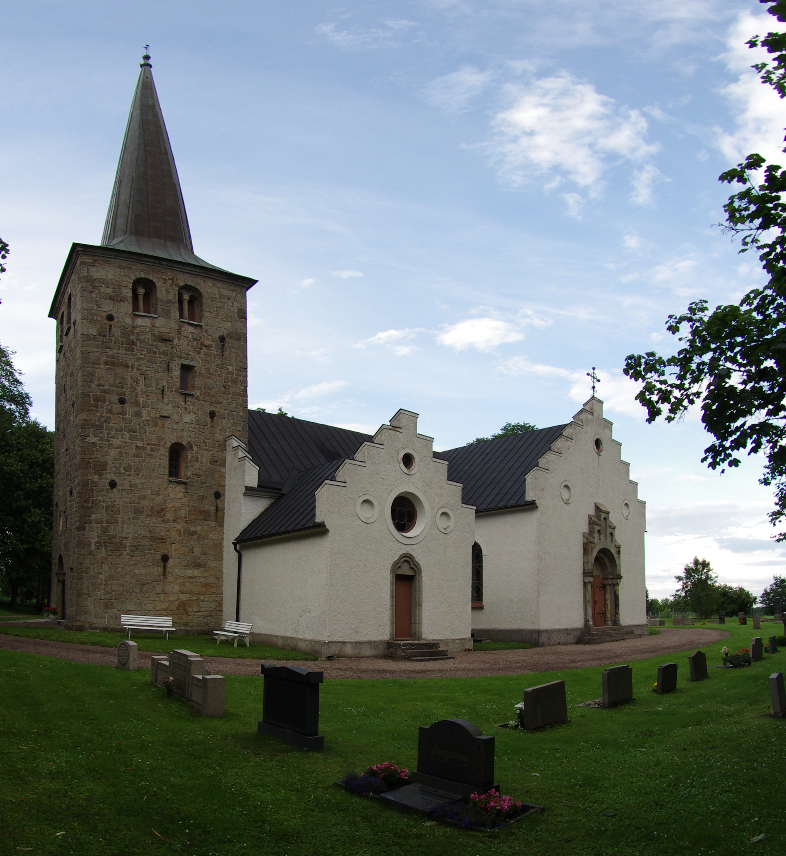 Valstad church in Västergötland, Sweden.